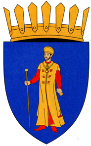 Coat of arms of Bubueci